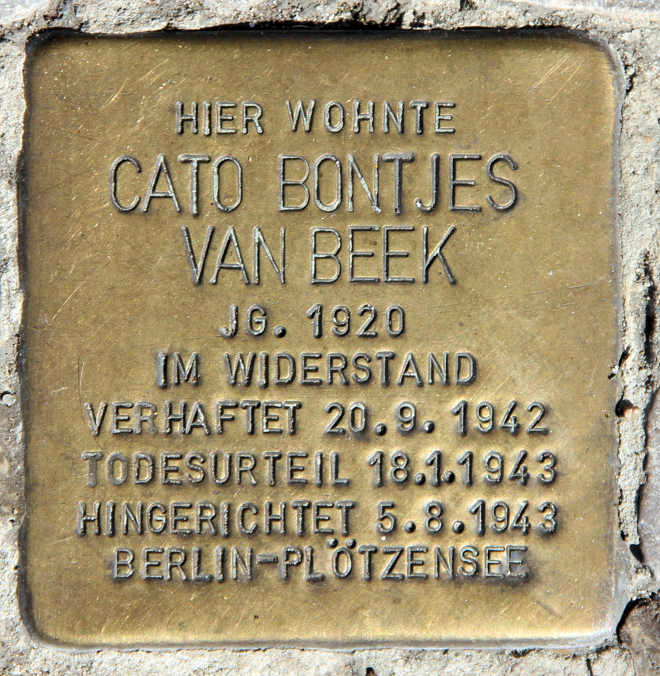 "Stolperstein" (stumbling block), Red Orchestra member Cato Bontjes van Beek, Kaiserdamm 22, Berlin-Westend, Germany